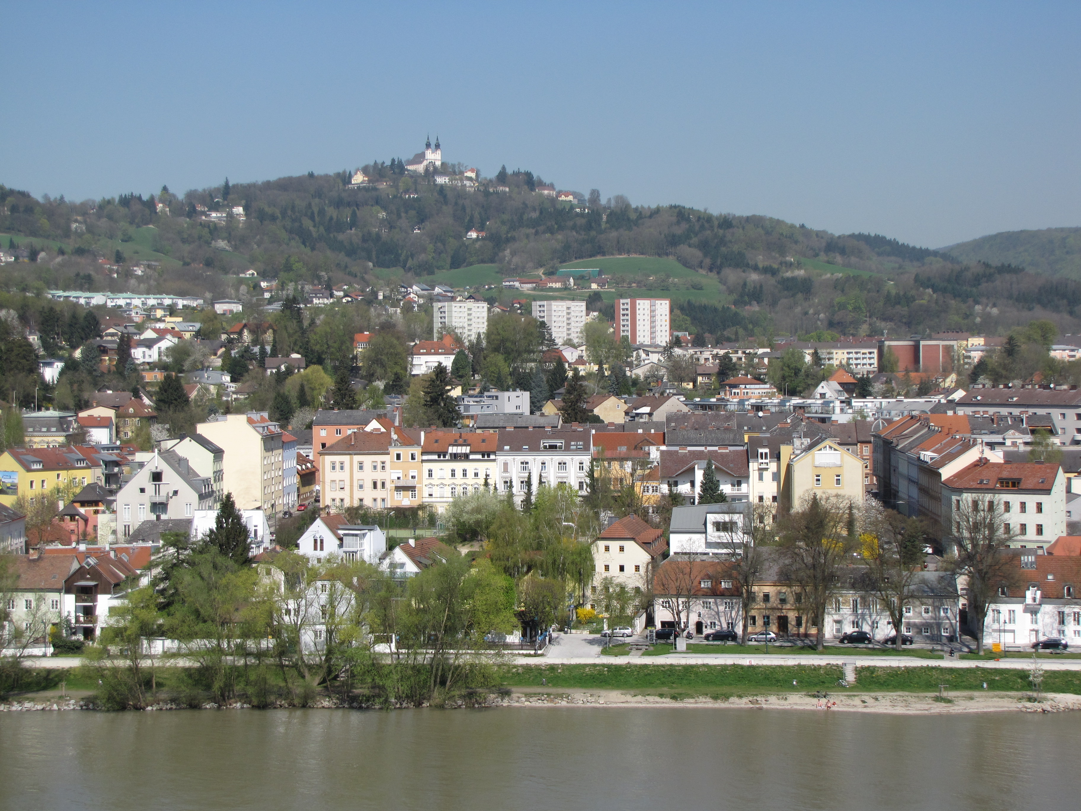 West part of Urfahr, Pöstlingberg in the background. View from Schloßberg Linz